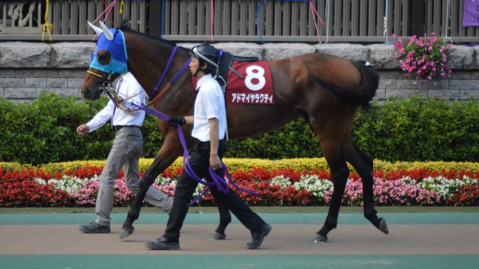 Japanese race horse Admire Rakti at Tokyo racecourse. Tokyo (JPN) 26 May 2013Meguro Kinen (Grade 2 Handicap) (Turf) (4yo+) 1m41/2f Firm RankHorse NameOddsAgeWgtTrainerJockey1stMousquetaire (JPN)78/10H58-11Yasuo TomomichiHiroyuki Uchida2ndLelouch (JPN) 53/10H59-0Kazuo FujisawaCraig A Williams3rdKahuna (JPN)6/1H58-13Yasutoshi IkeeKeita Tosaki4th - 9th/omission10thAdmire Rakti (JPN)14/5FH59-1Tomoyuki UmedaYasunari Iwata